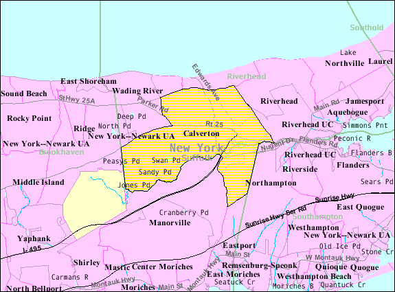 U.S. Census 2000 reference map for Calverton